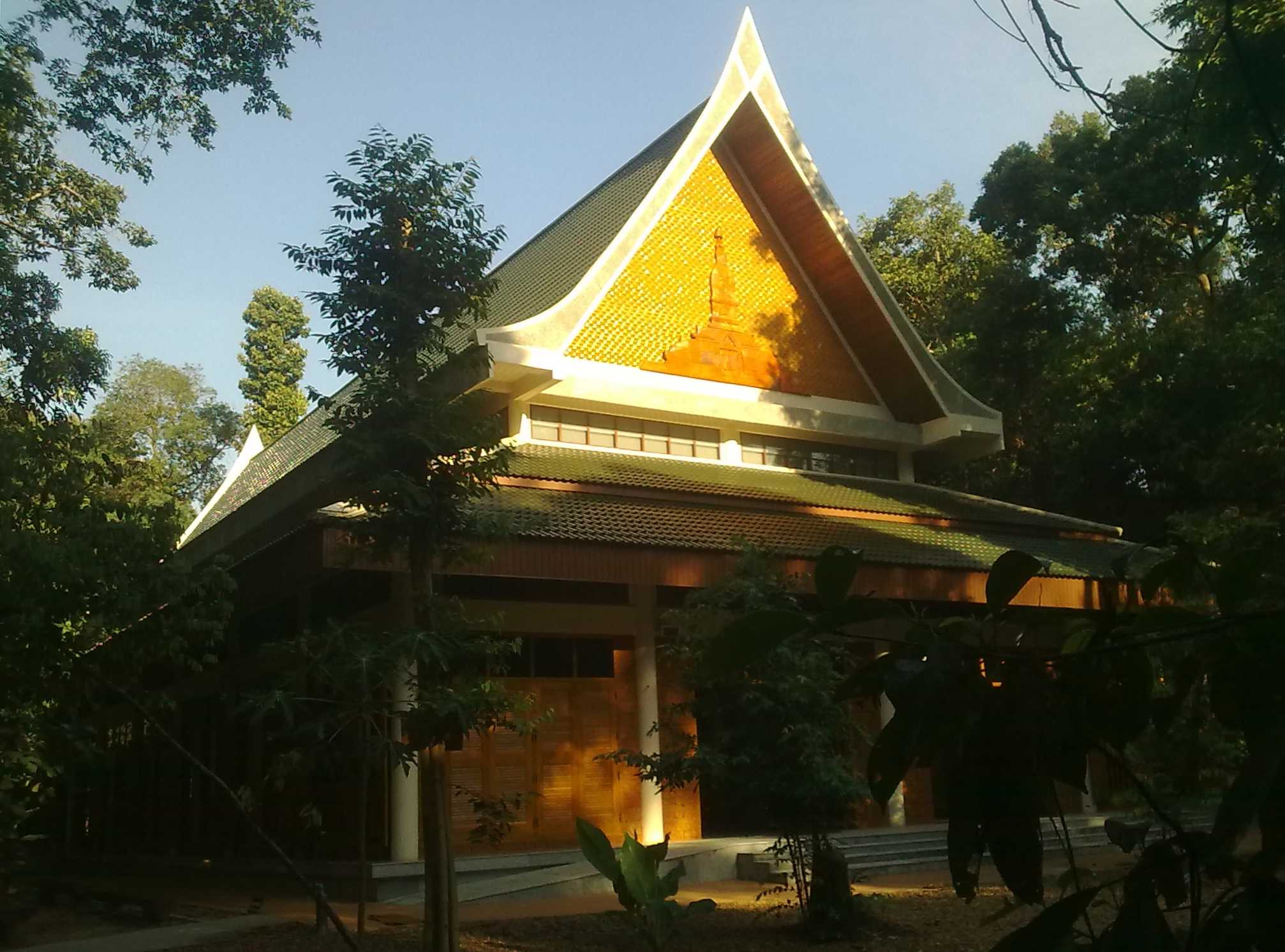 The main meditation hall of Wat Pah Nanachat, the International Forest Monastery in Ubon Rachathani, Thailand.